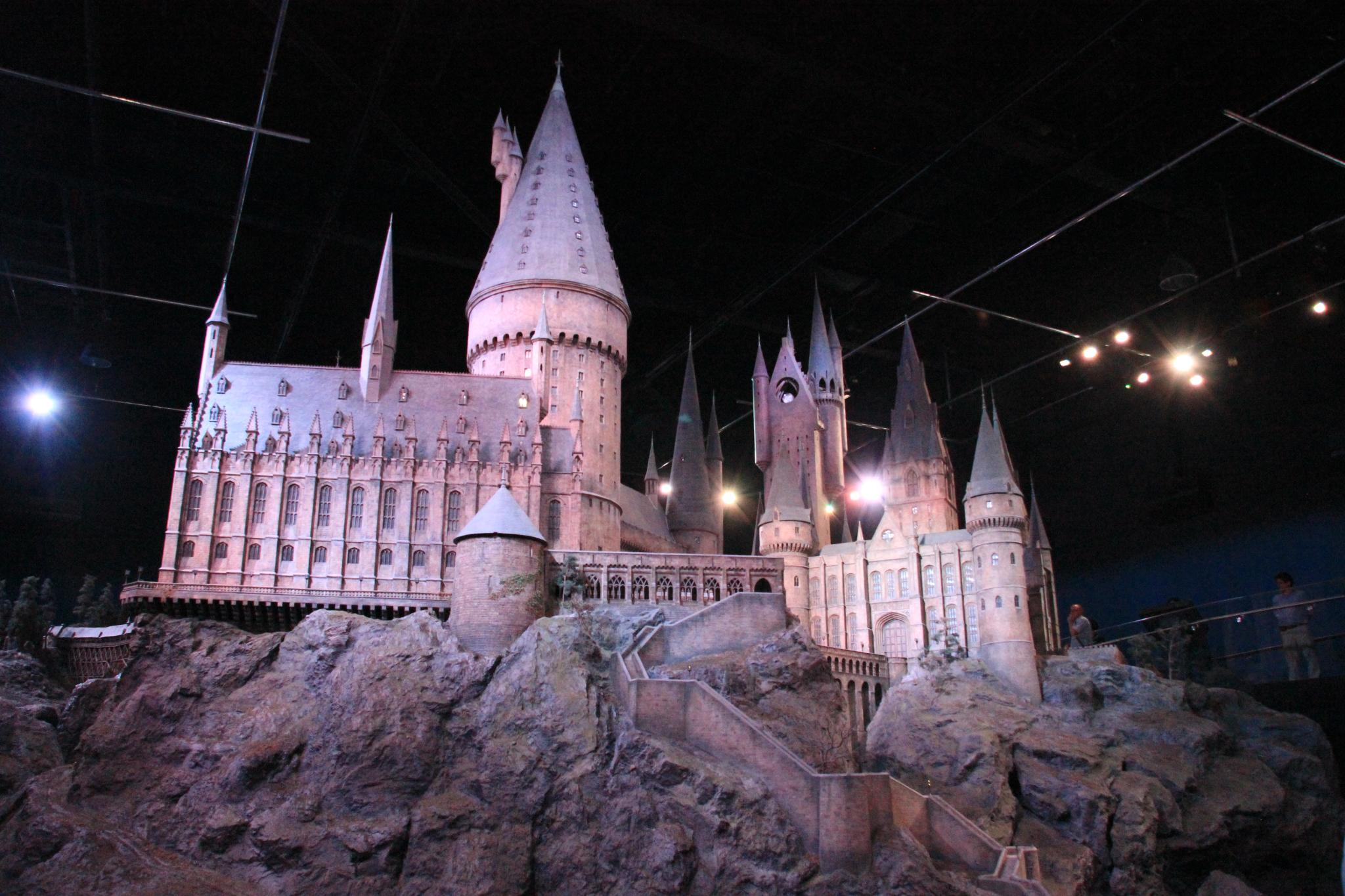 Warner Bros. Studio Tour London: The Making of Harry Potter.